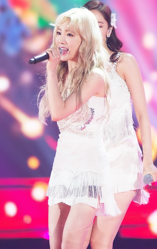 Taeyeon at KBS Gayo Daechukje December 30, 2015.